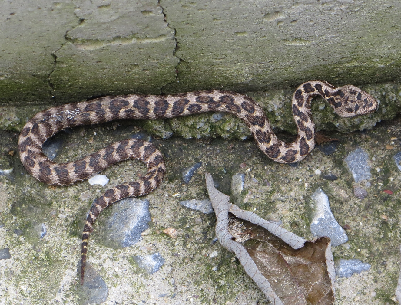 Gloydius saxatilis, agkistrodon, Rock Mamushi, 까치살모사 (kkachisalmosa, Magpie Viper), Photo taken July 2013 in Sobaeksan National Park, Danyang-gun, Chungcheongbuk-do, South Korea. At elevation 1000m. Camera Canon SX260 F5.6, 1/100sec, ISO400